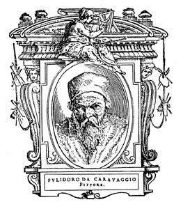 Illustratio from "Le Vite" by Giorgio Vasari, edition of 1568. For the artist portrayed see filename